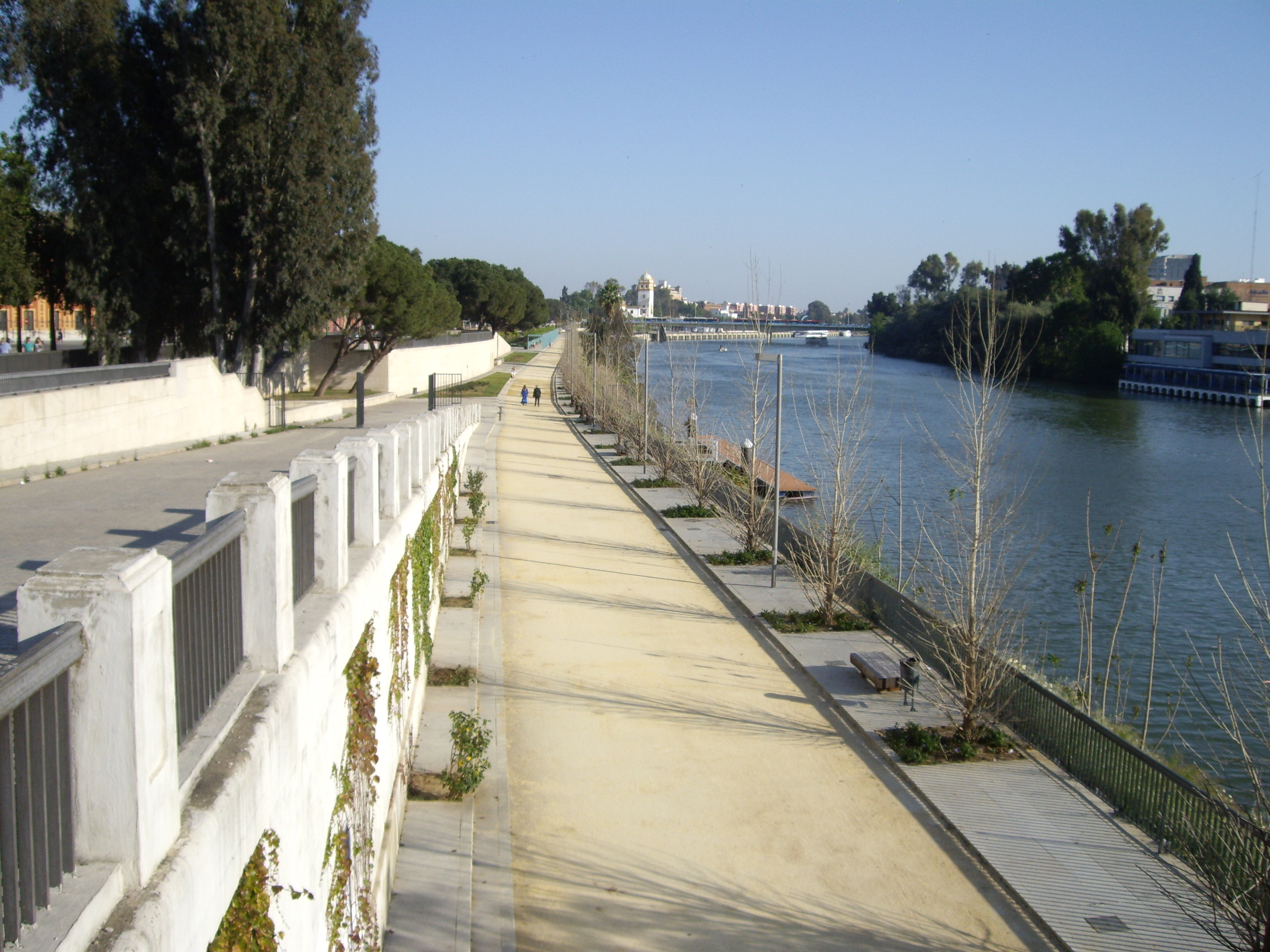 Muelle de Nueva York en la Dársena de Alfonso XIII, cauce histórico del Río Guadalquivir. Sevilla.